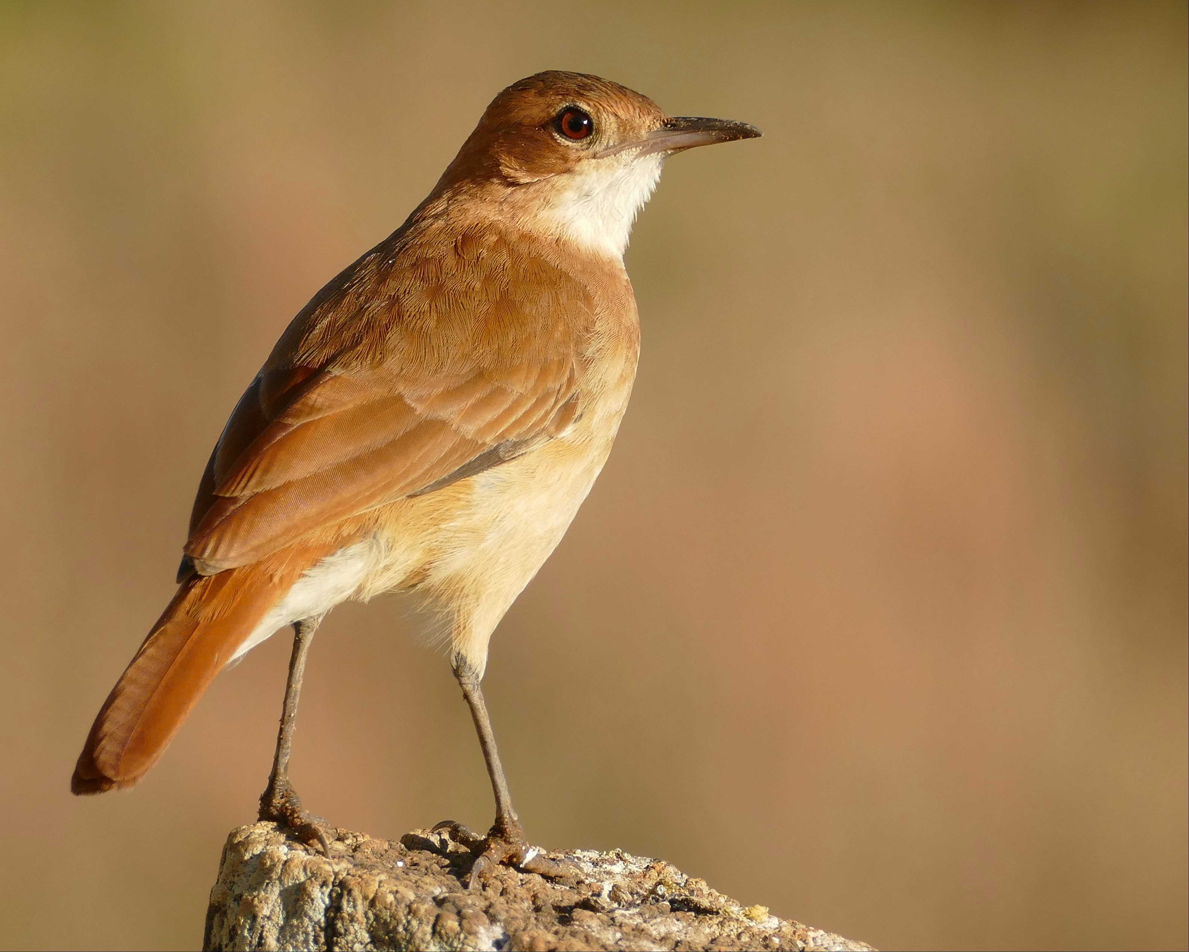 Transpantaneira, Poconé, Mato Grosso, BRAZIL